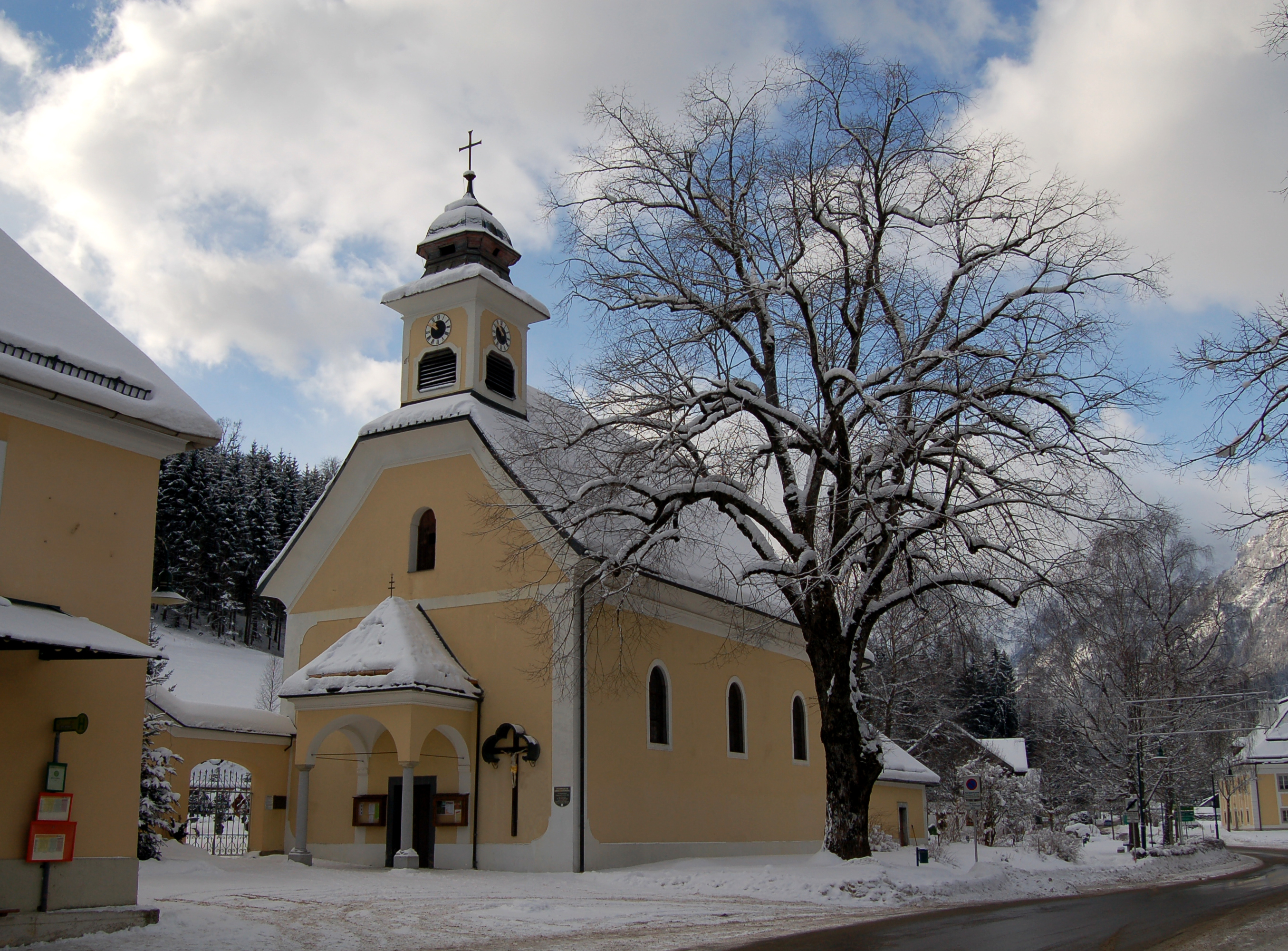 Parish church Kreuzerhöhung in Hinterstoder, Upper Austria (1787).